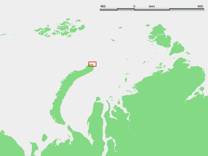 Map showing the location of Cape Zhelaniya.